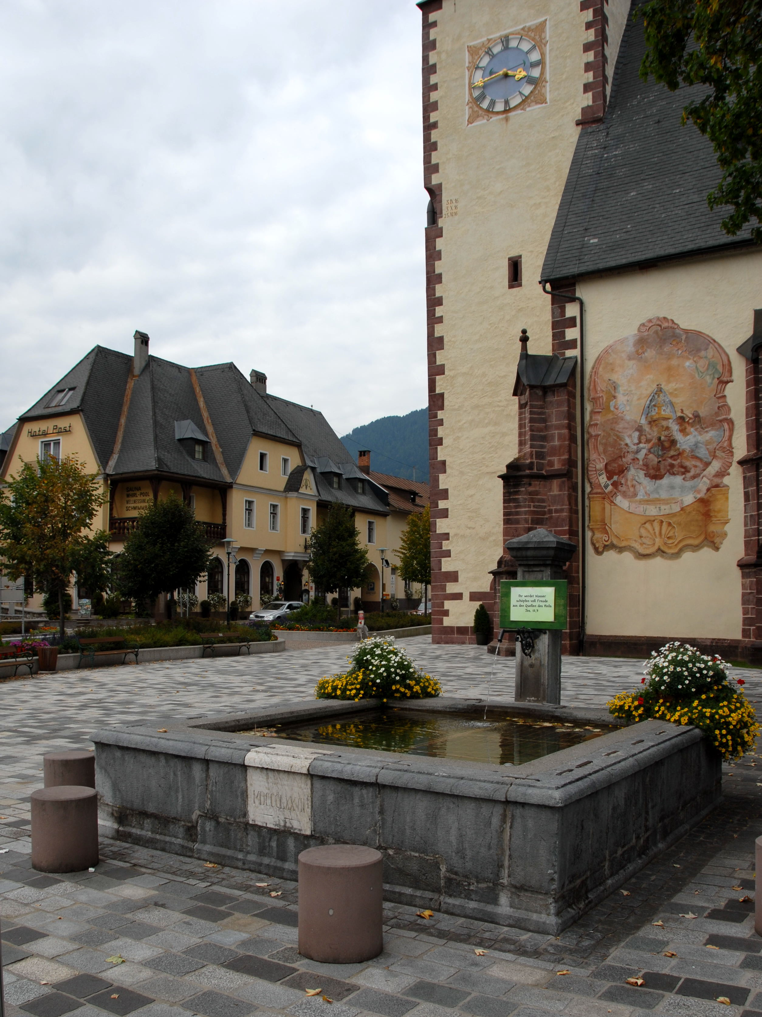 Fountain (1878) at main-square of Koetschach, Carinthia, Austria